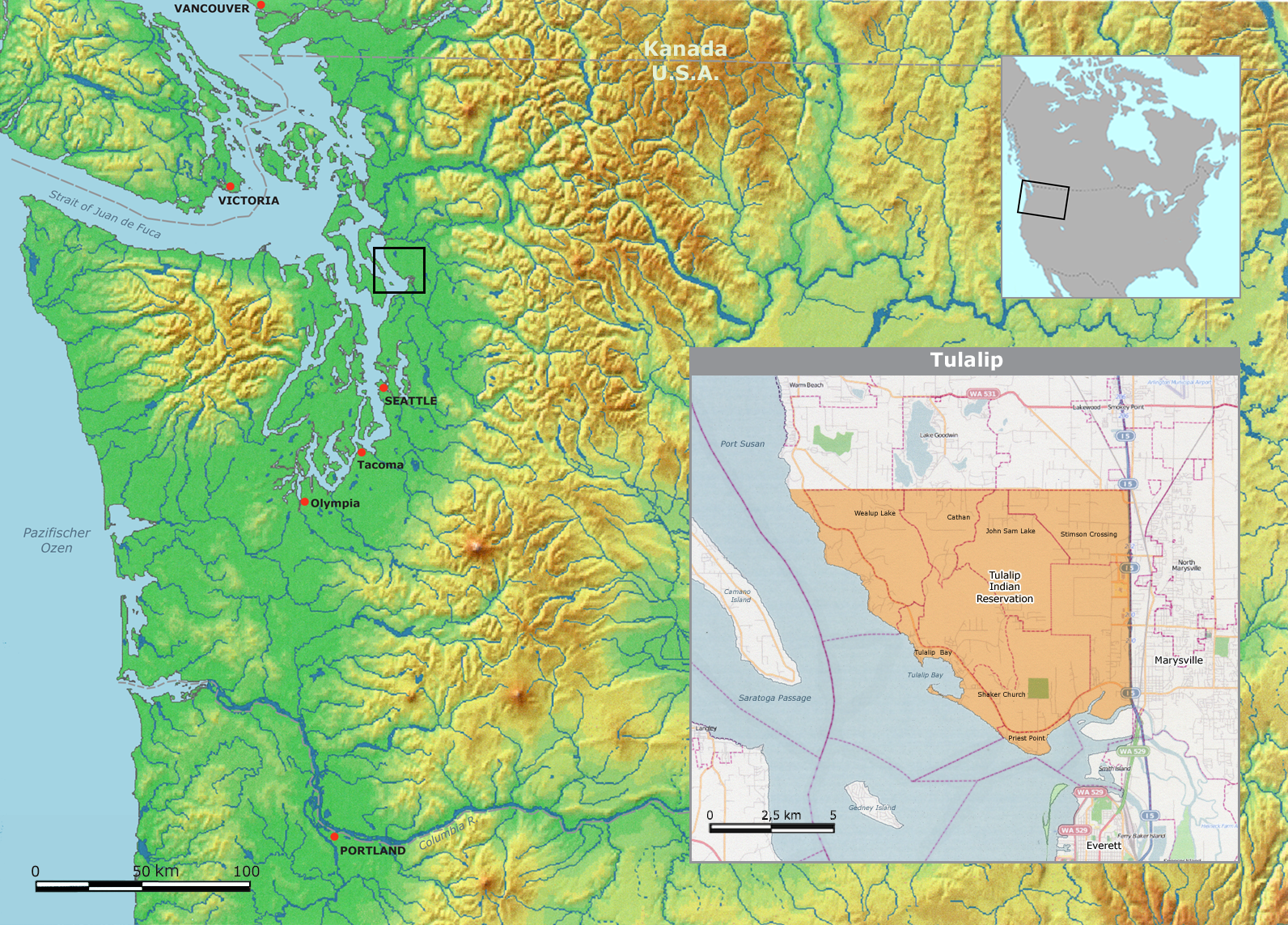 Map of present-day Tulalip Indian Reservation